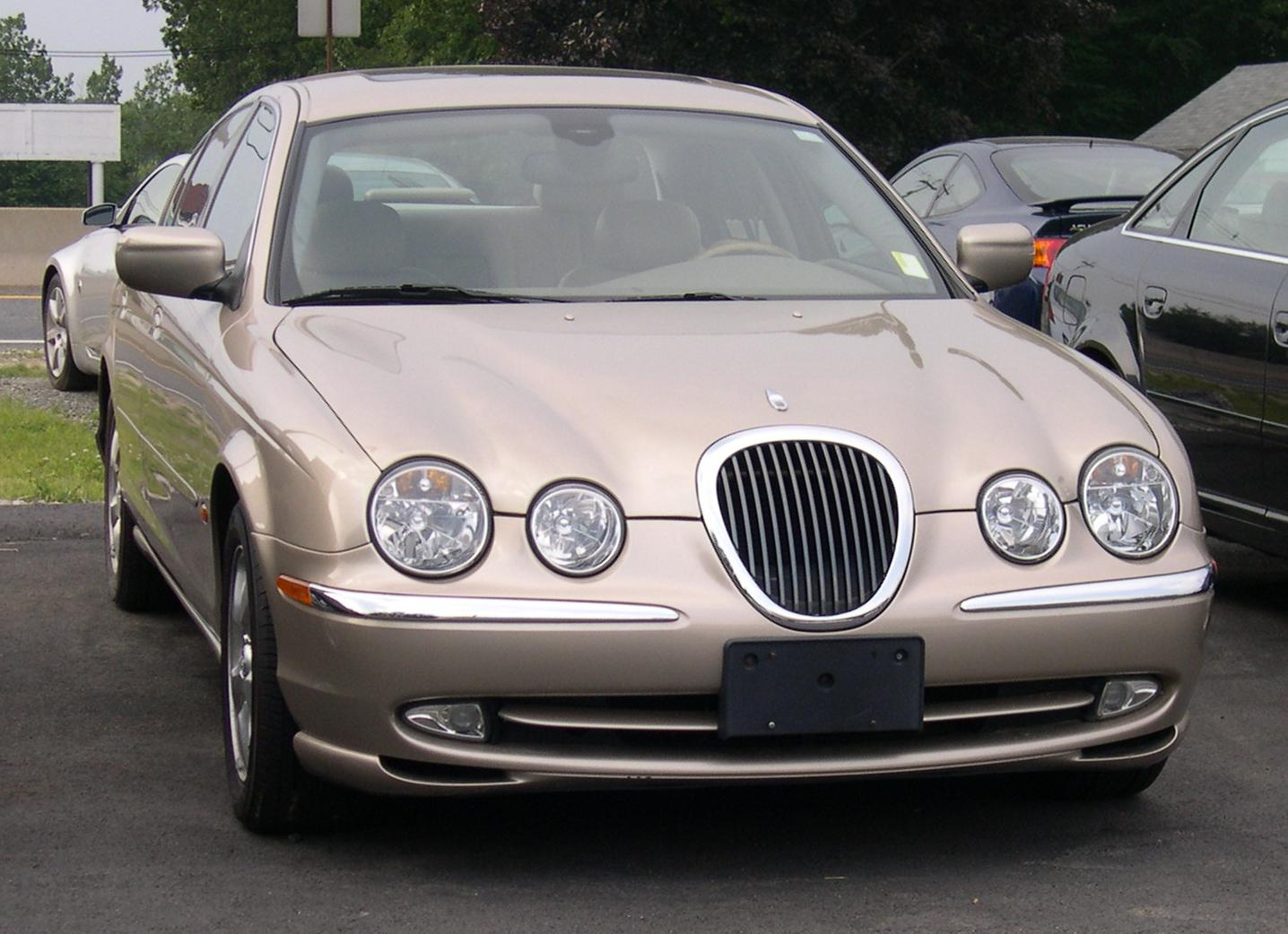 2004 Jaguar S-Type Source: Photo by User:Sfoskett